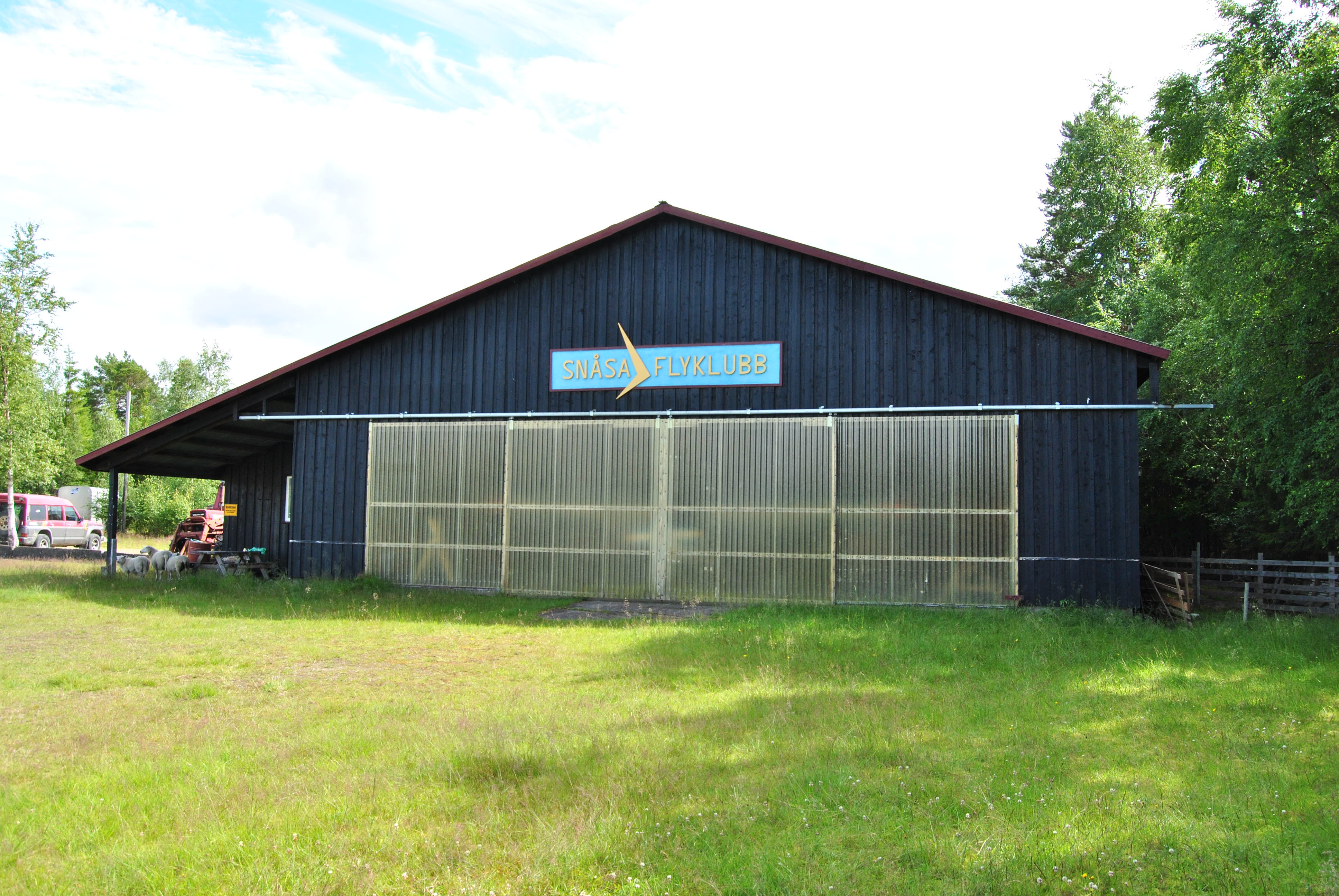 Snåsa Airport, Grønnøra